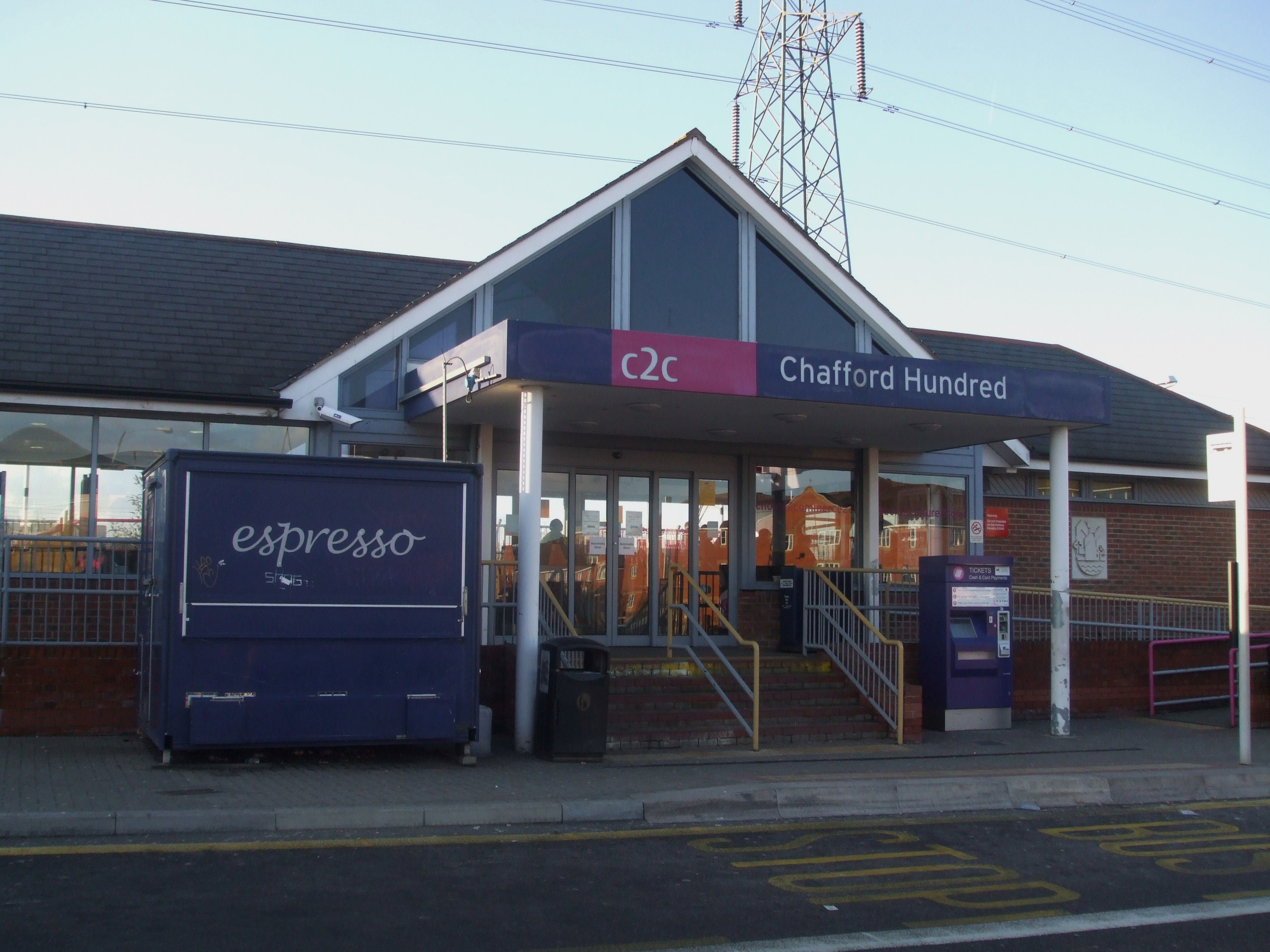 Chafford Hundred station main entrance, northern end of station building